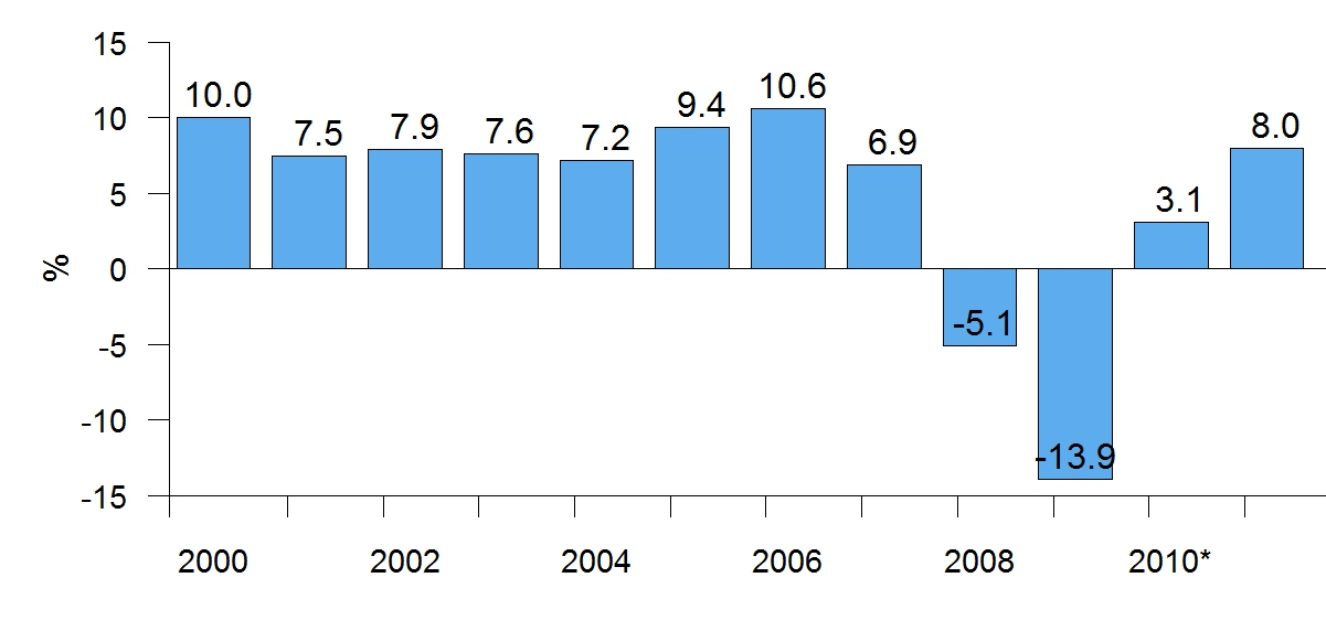 Real GDP growth of Estonia